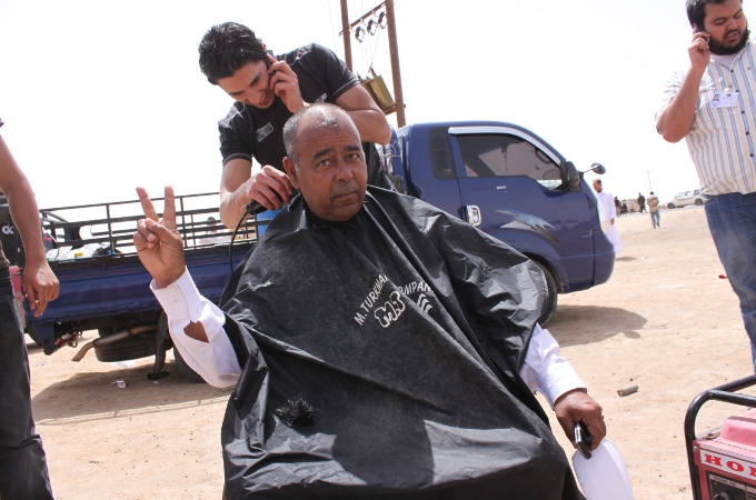 Haj Raba Mohammed, 62, stopped by to get his hair cut at the makeshift salon at Ajdabiya's western gate. He said he was born in Ajdabya, lives in Ajdabiya and will die in Ajdabiya. He's actually 20 years old, he said, since you need to subtract Muammar Gaddafi's 42 years in power. "Even the gray hairs I got from Gaddafi are gone," he said.